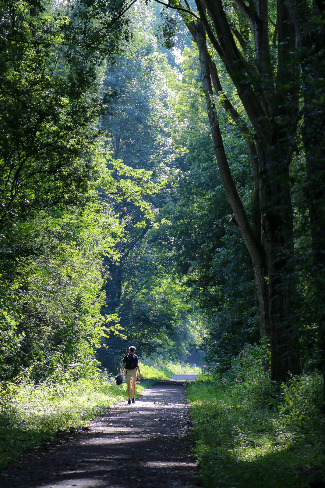 500px provided description: A lonely hiker, enjoying a walk through the forest during an "Indian summer". [#forest ,#netherlands ,#hiking]